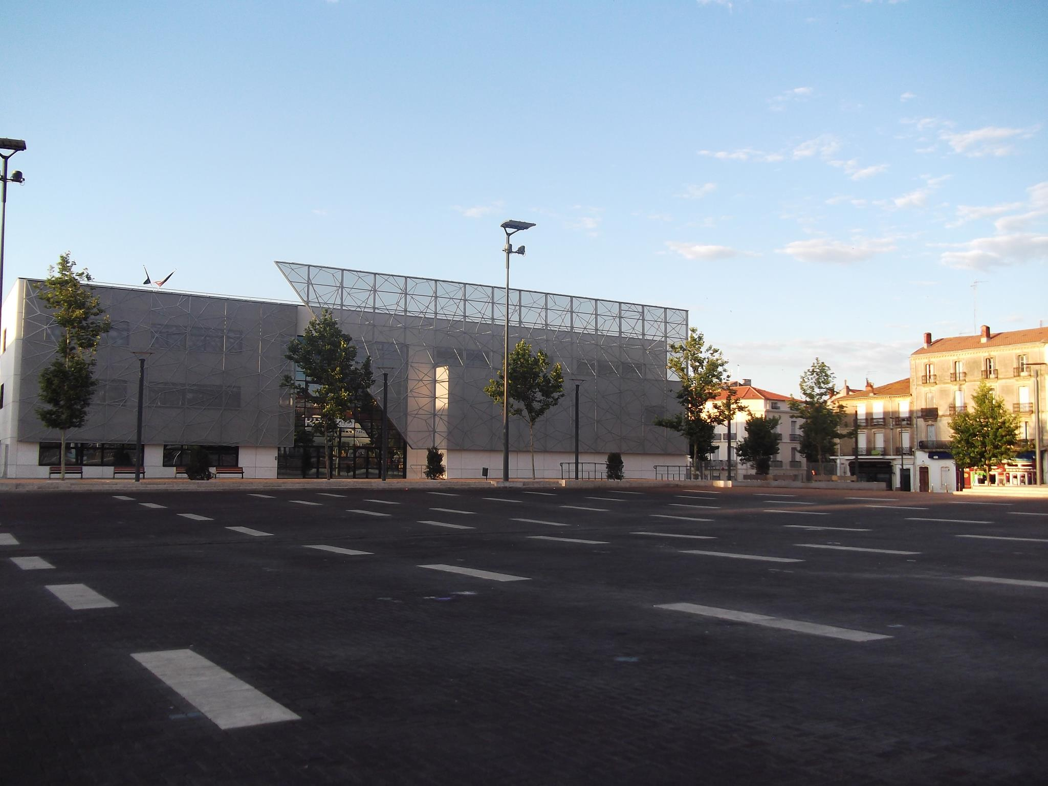 IUT of Beziers, place of 14 Juillet